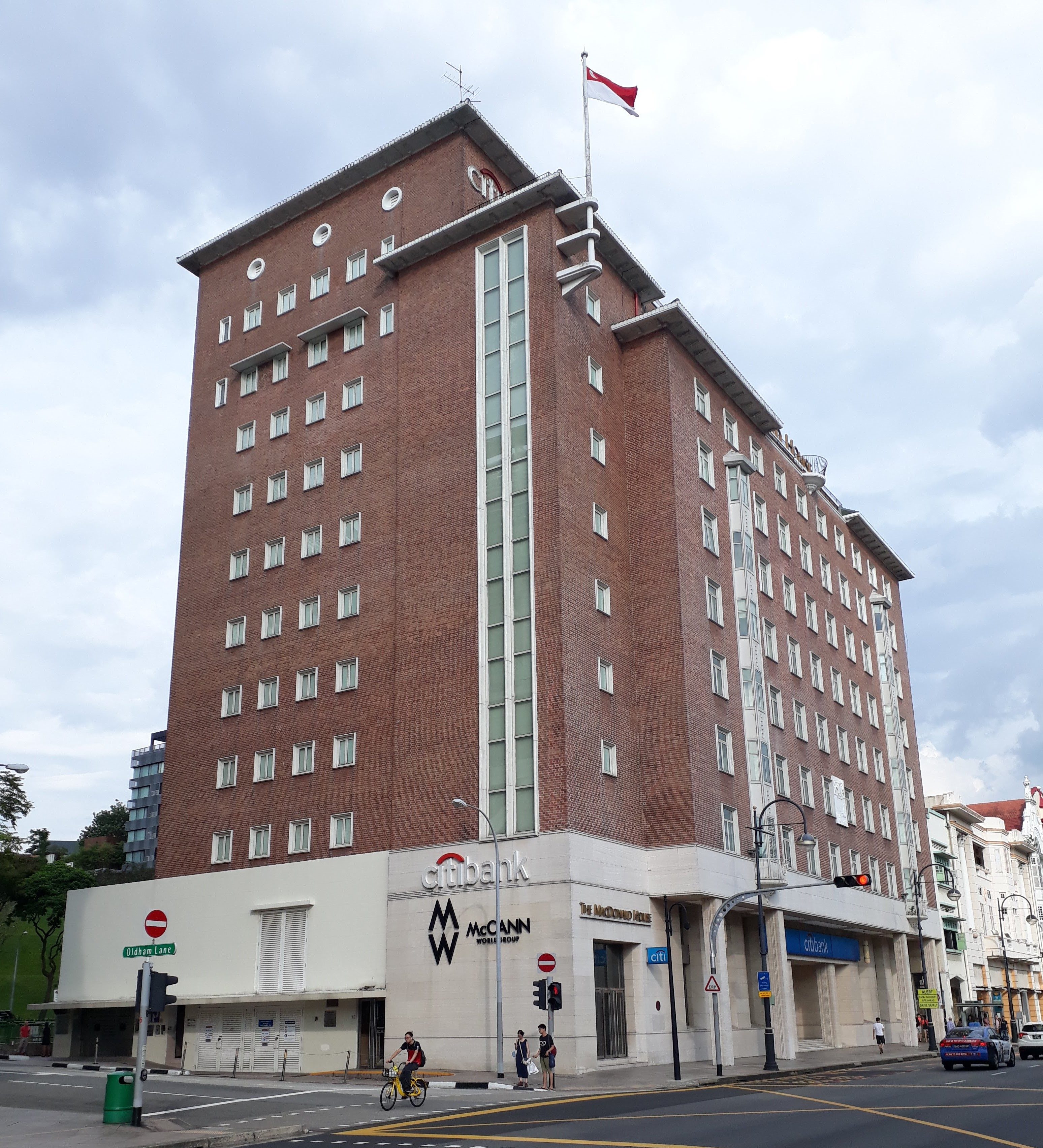 MacDonald House, Orchard Road, Singapore